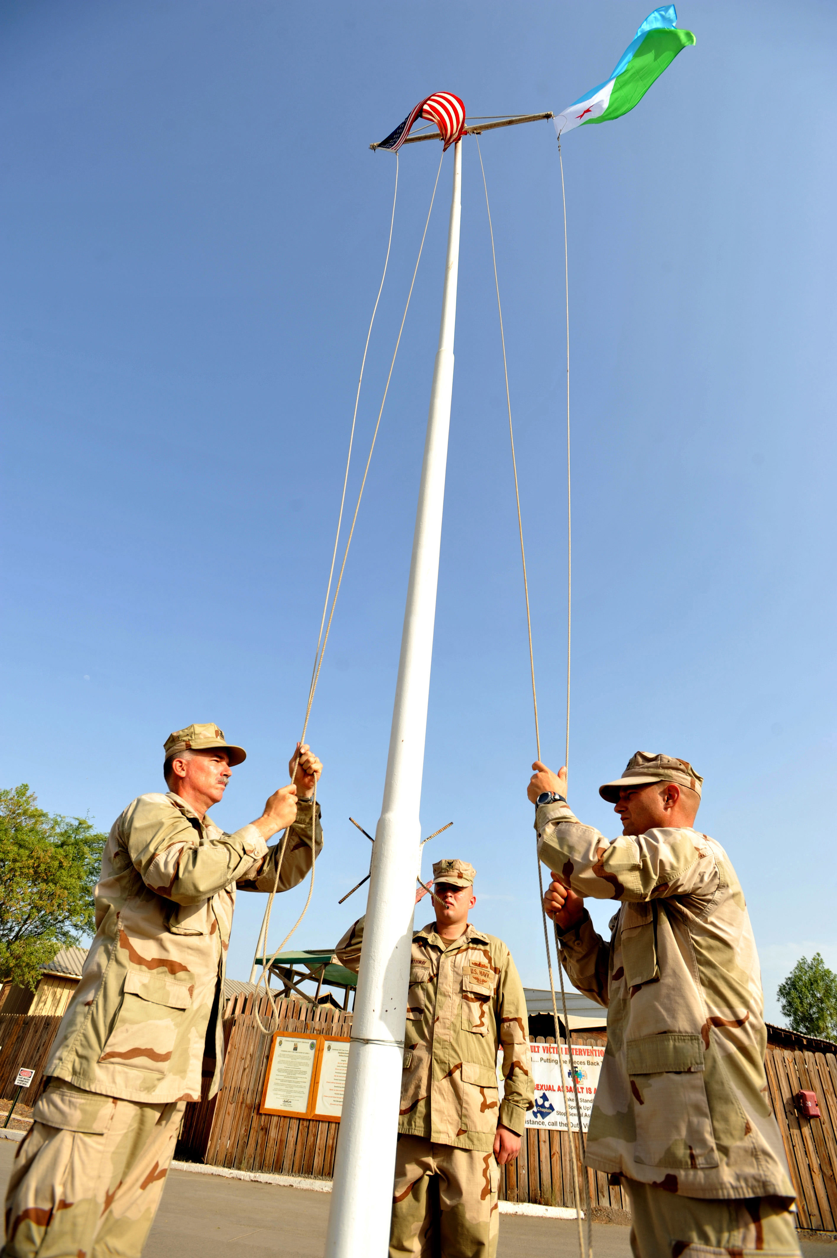 DJIBOUTI (Aug. 11, 2009) Chief petty officer selectees raise the American and Djiboutian flags during morning colors at Camp Lemonier. Chief petty officer induction lasts for approximately six-weeks, preparing selectees for their new roles as deckplate leaders. (U.S. Navy photo by Mass Communication Specialist 1st Class Jonathan Kulp/Released)